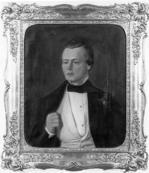 Painting (oil on canvas) portraying Swedish sea captain Victor F.J. Kempff, measurements 790 x 680 mm.